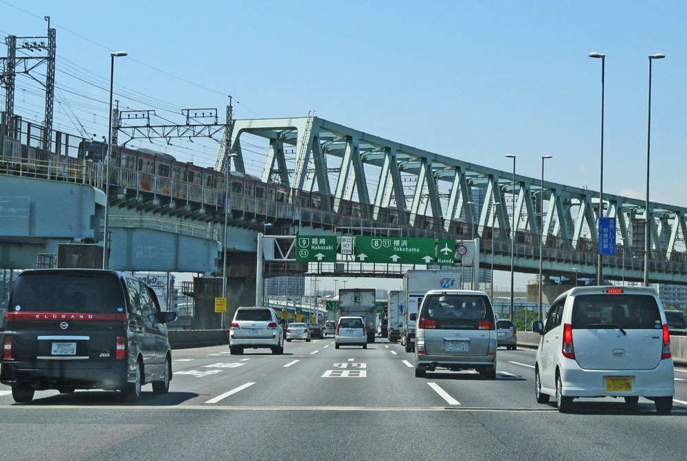 Tatsumi Junction on the Metropolitan Expressway